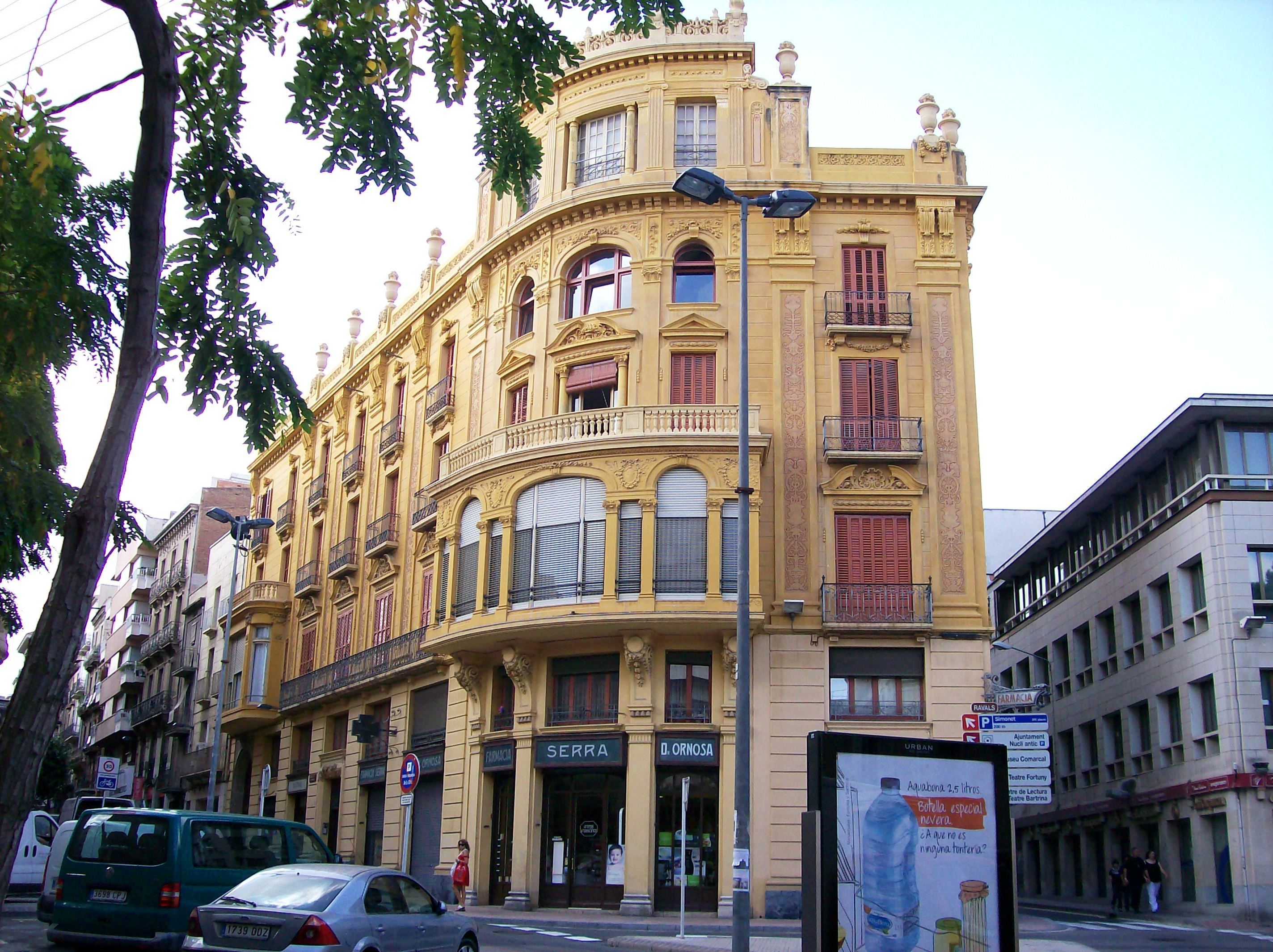 Reus. CASA FABREGAS. 1920